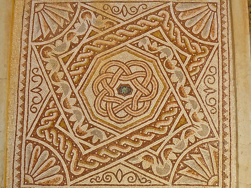 Mosaic (2nd c. AD) inside the Roman Theatre of Bosra (Syria)